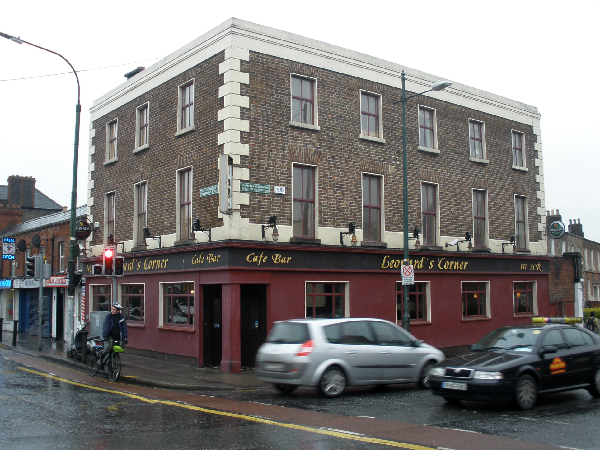 Leonard's Corner, the junction of Clanbrassil Street and South Circular Road in Dublin, Ireland.